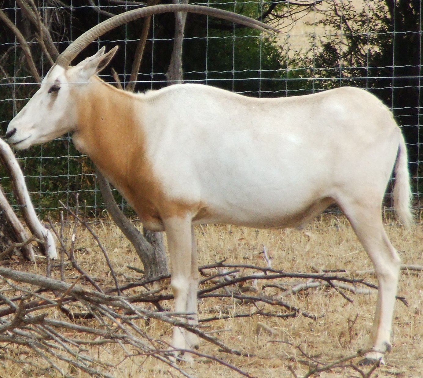 Scimitar Oryx (Oryx dammah) from Werribee Open Range Zoo, Victoria, Australia.